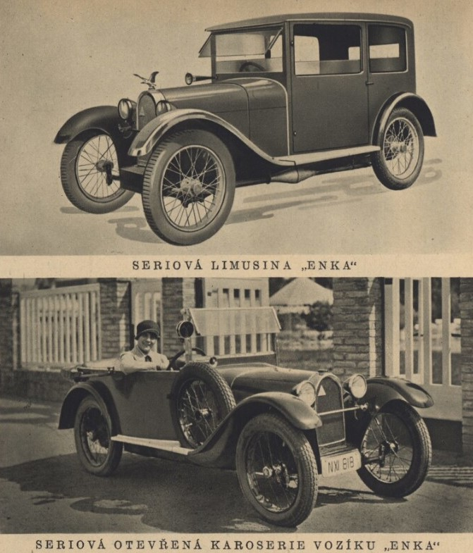 Czechoslovak transaxle car ENKA, 1929